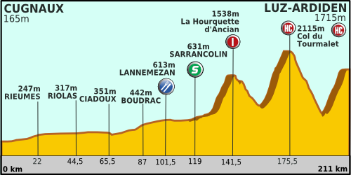 Profil of the 12th stage of the Tour de France 2011